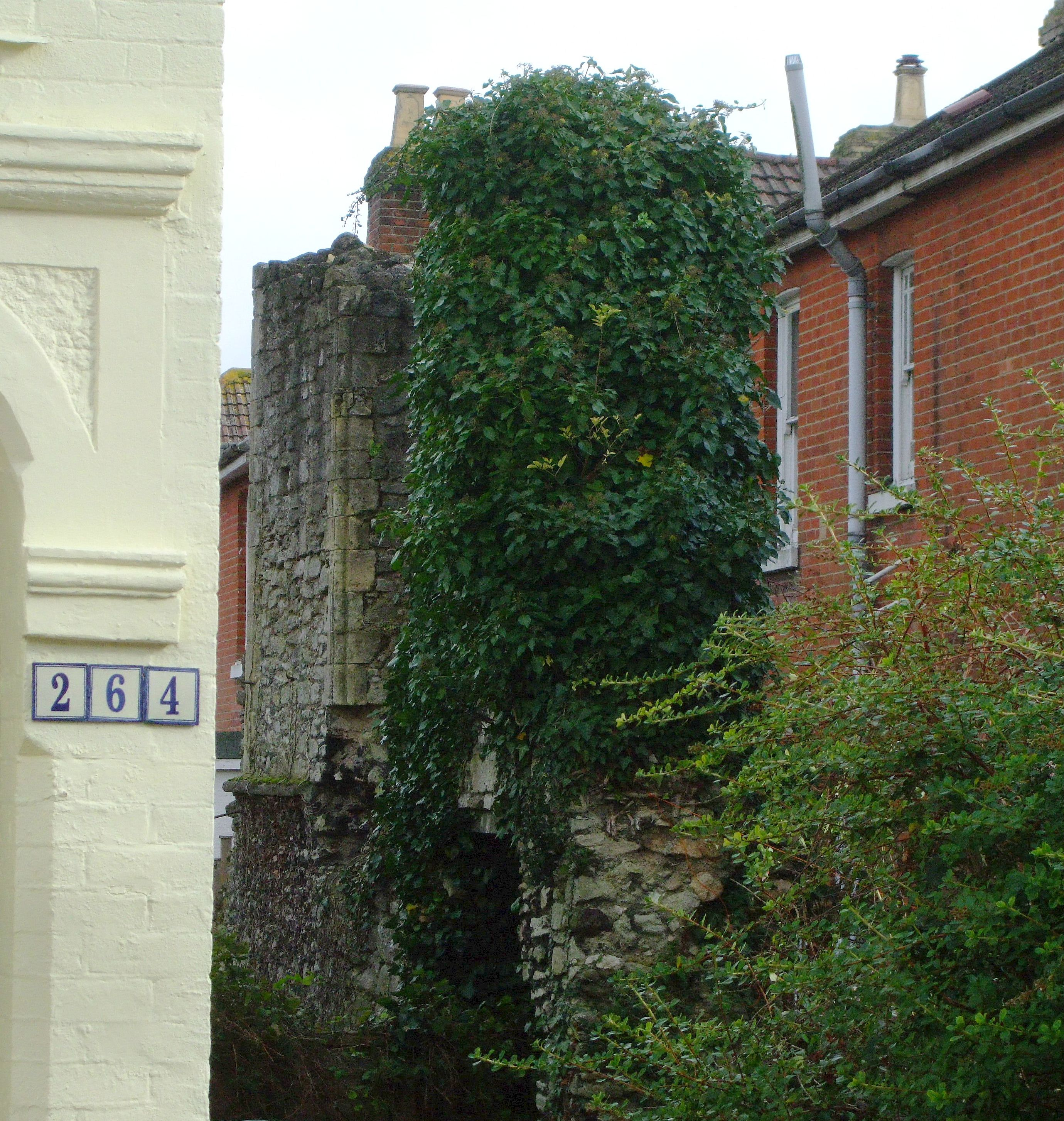 Remains of the Priory of St Denys in the back gardens of houses number 1 and number 2 on Priory Avenue in Southampton. Only this section of 14th-century wall survives at the original site.